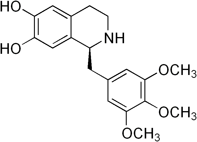 chemical structure of Tretoquinol